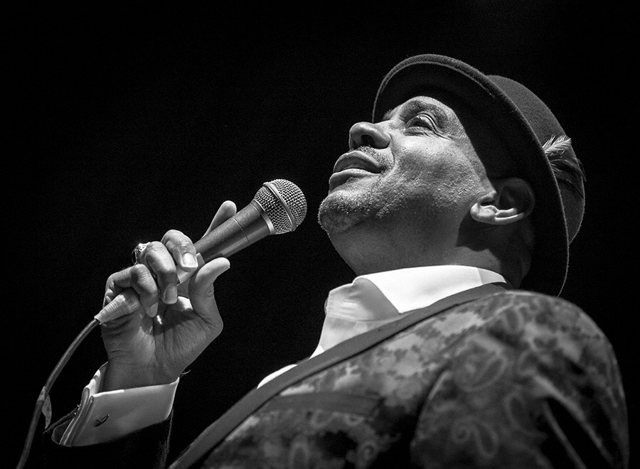 Allan Harris performs at Cosmopolite Scene in Oslo on 24.04.2016. Lineup:Allan Harris (vocals and guitar)Pascal Le Boeuf (piano and organ)Paco Perera (bass)Yoran Vroom (drums)